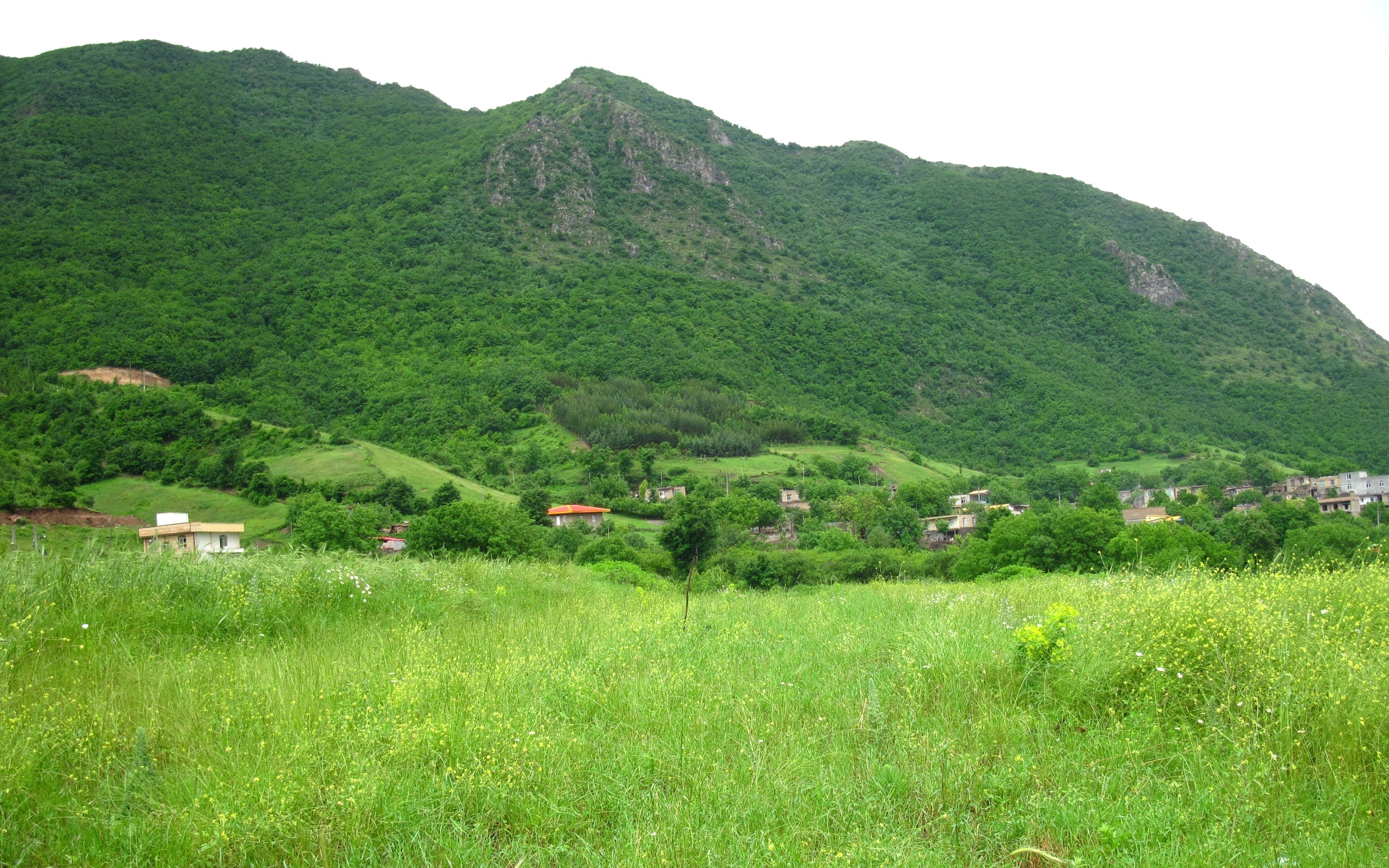 For Kalaleh Wiki page.